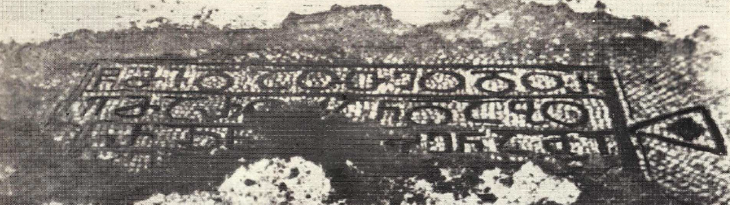 Oldest Georgian Asomtavruli inscription found in Bir el-Qutt, Bethlehem, 430 AD.